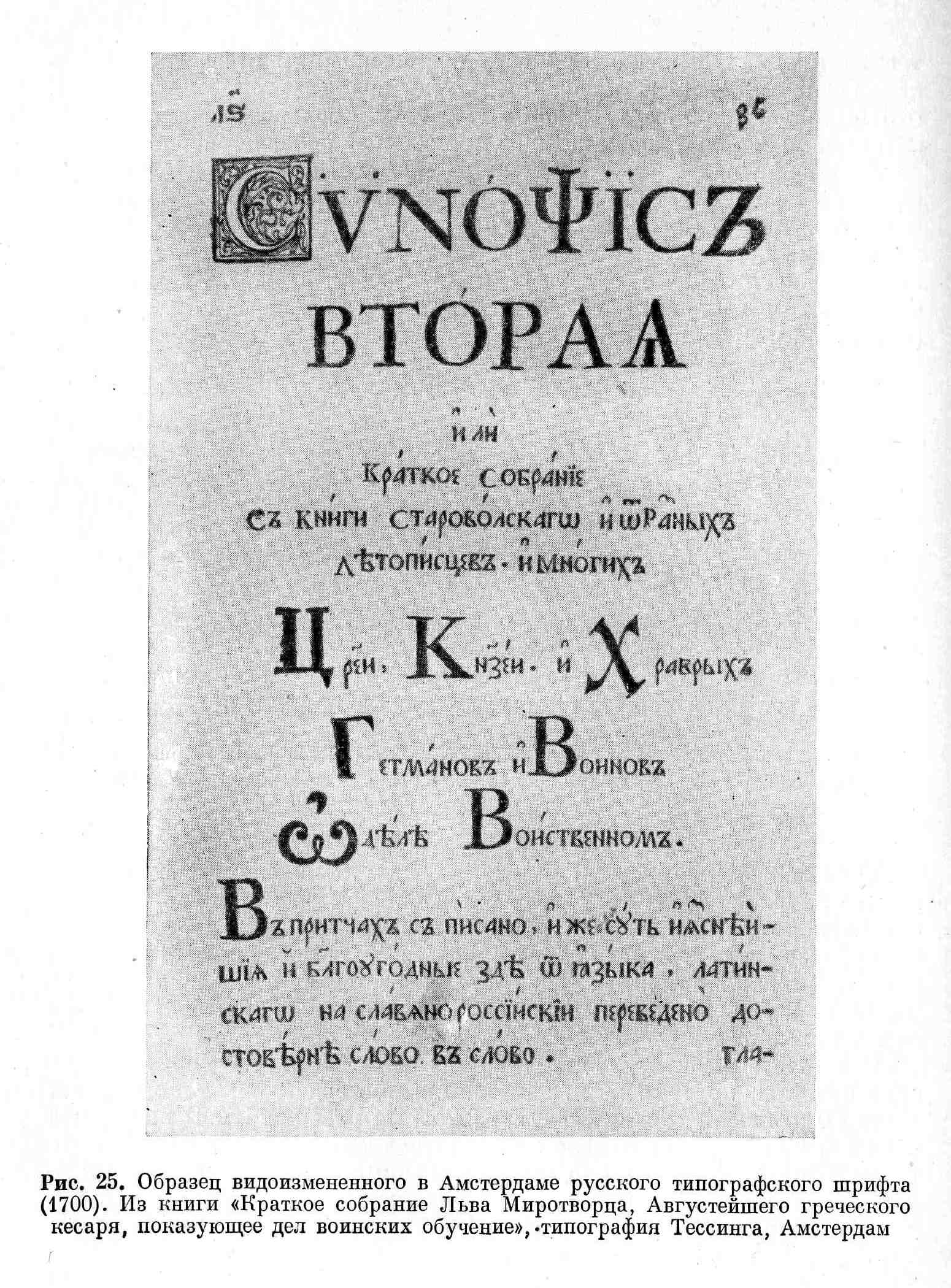 From the book printed in Jan Tessing's printing plant. Amsterdam, 1700.